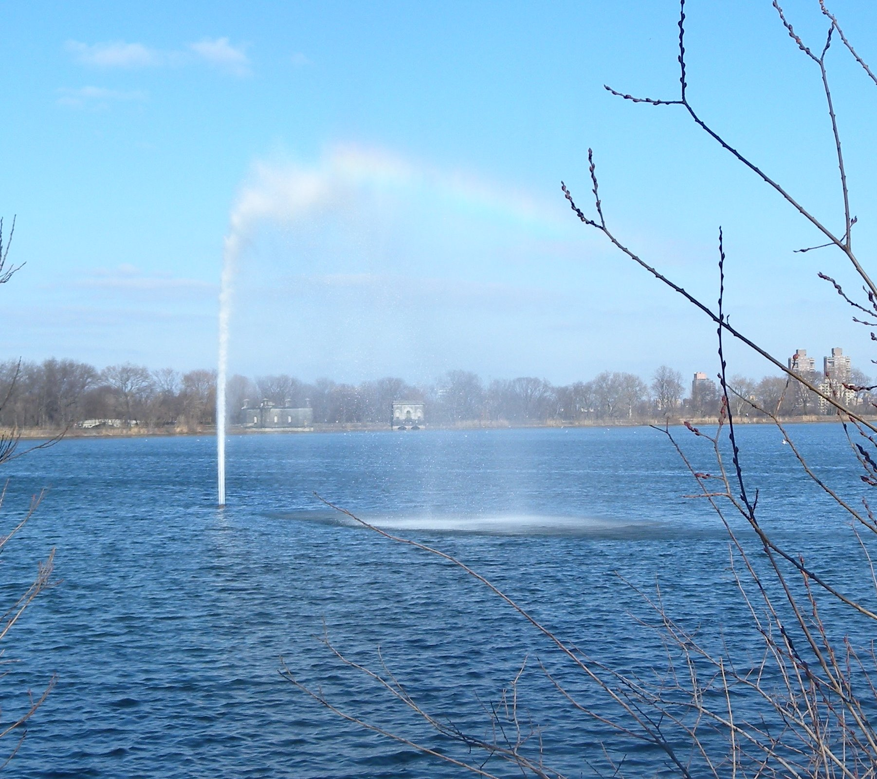 Looking northeast at fountain in Central Park reservoir on a sunny day.